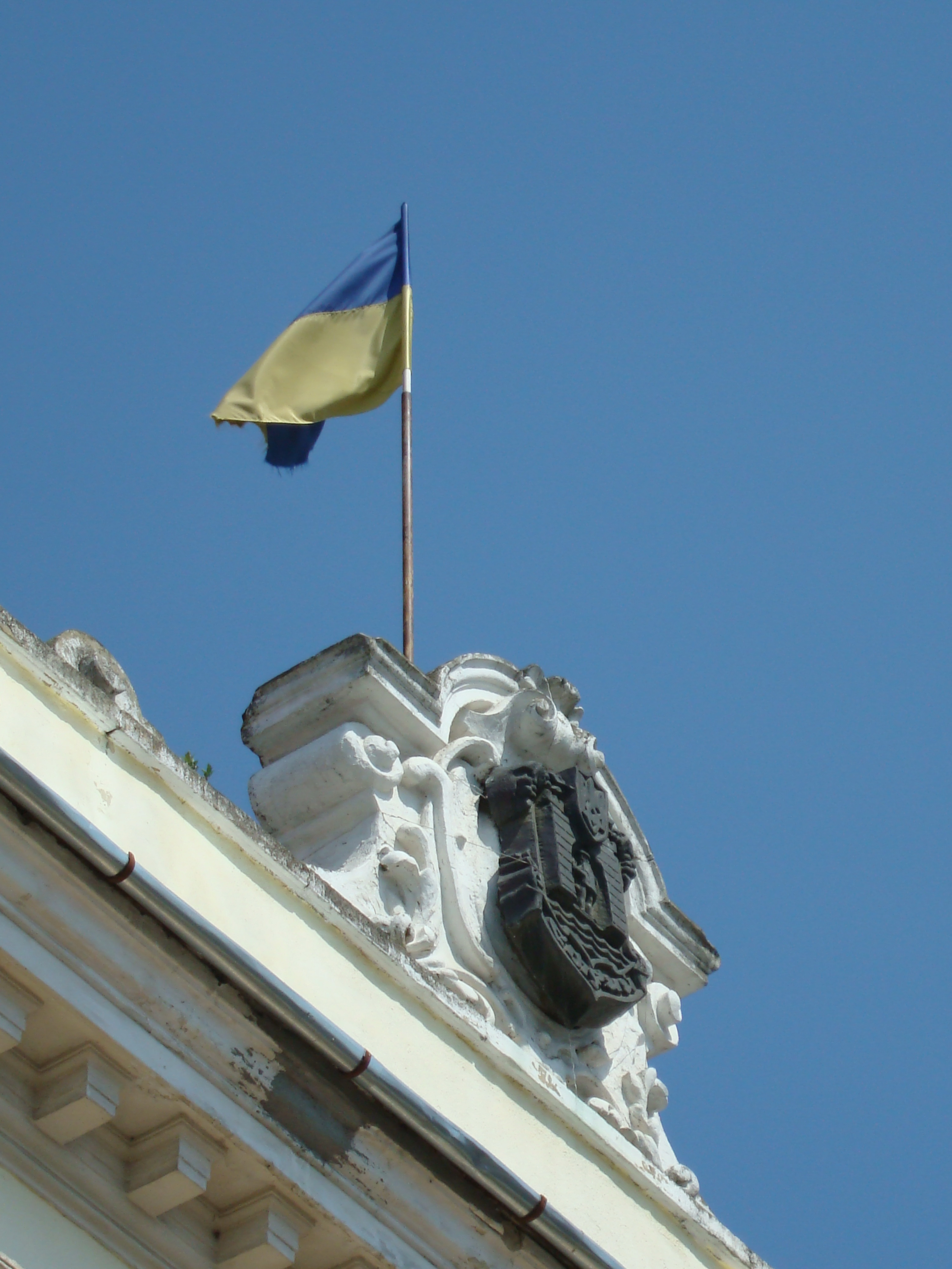 Stryi considers to be the first city in Ukraine to bear the blue over yellow Ukrainian National Flag when it was hoisted on the flagpole of the Town Hall on March 14, 1990 before the fall of the Soviet regime.